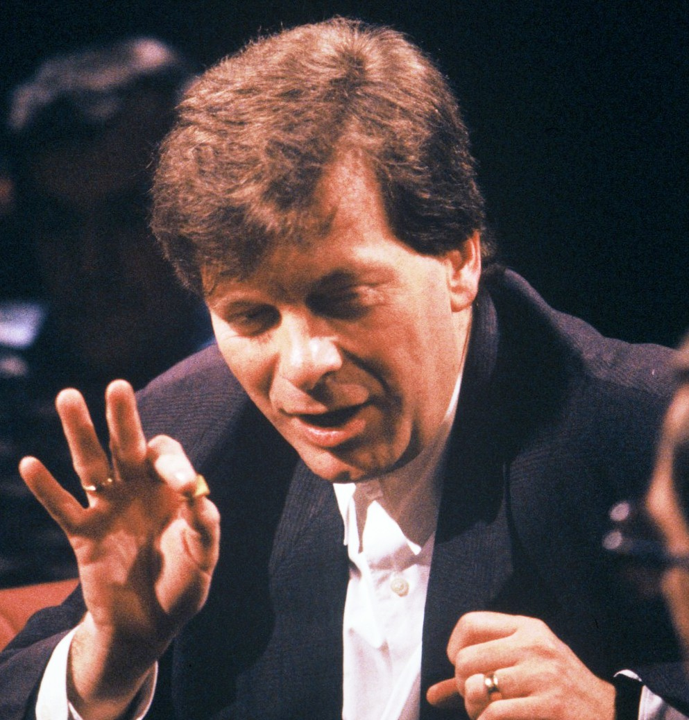 Tony Wilson hosting television programme After Dark on 9th April 1988. (c)1988 Open Media Ltd.